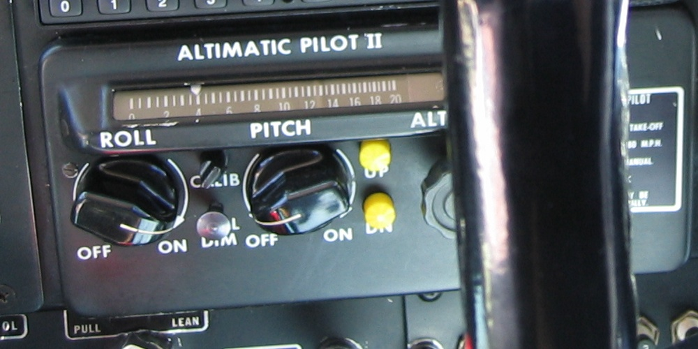 Panel for Altitude Alert; croped from Image:Comanche_instrum.jpg